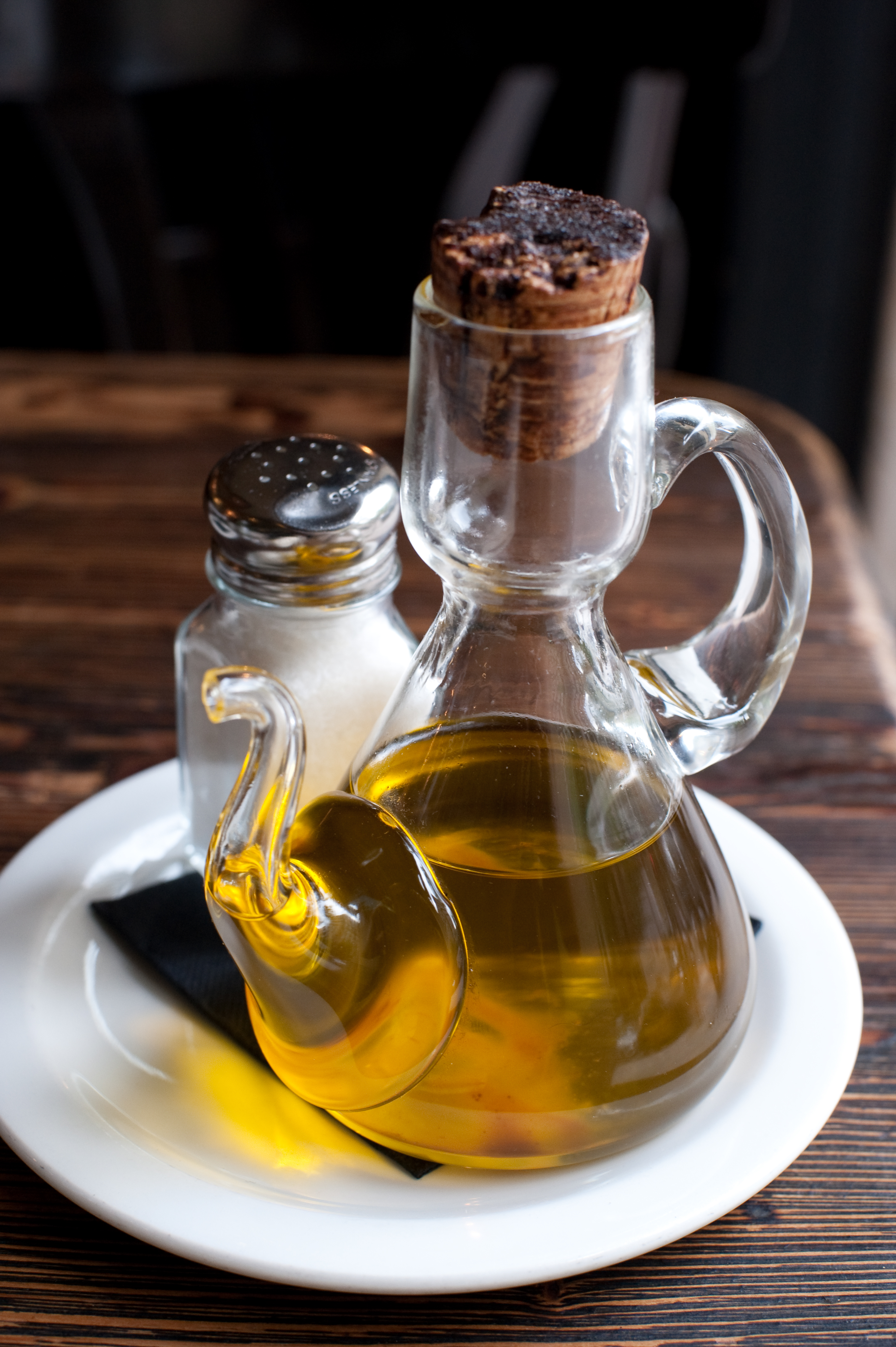 olive oil.